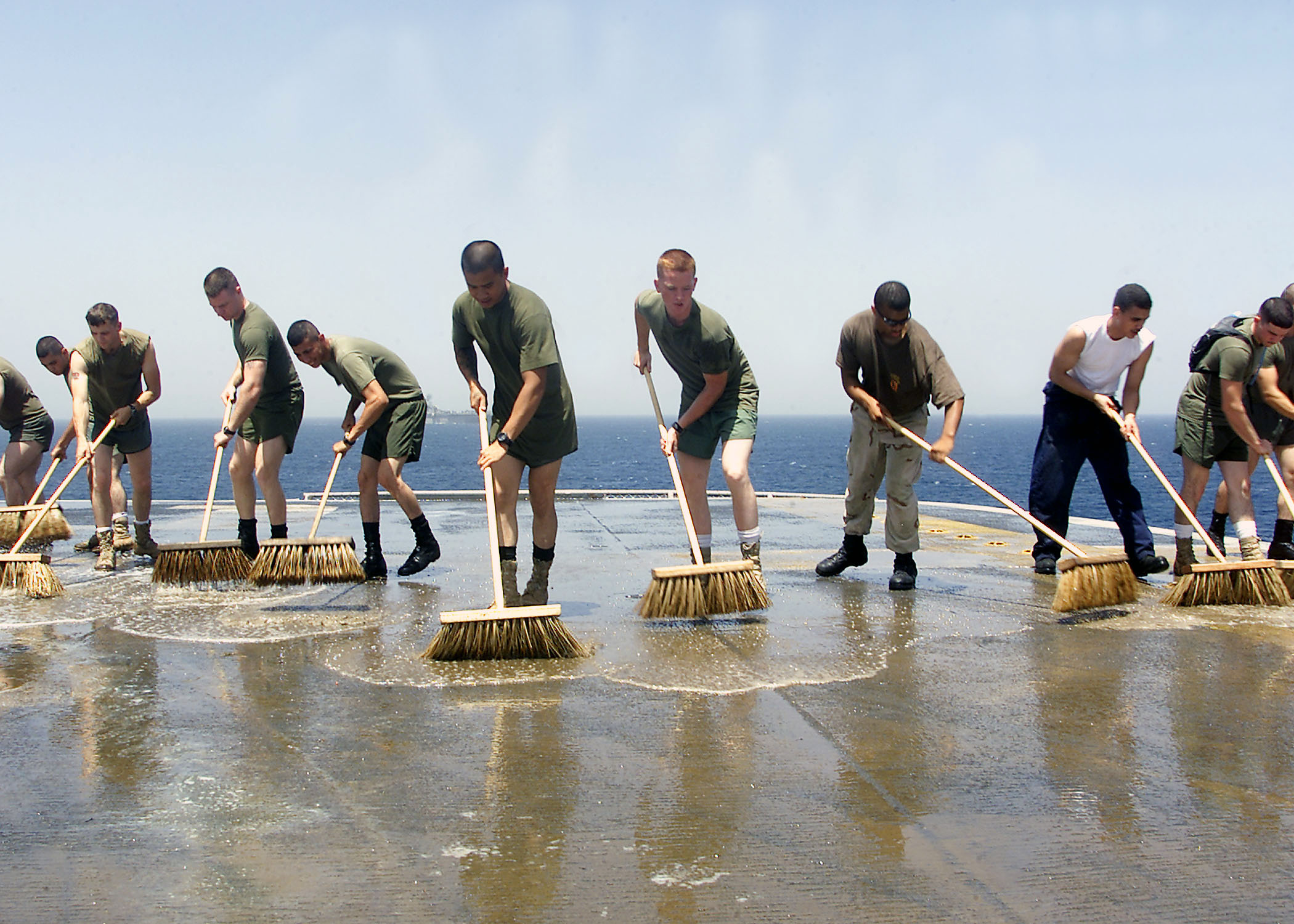 Arabian Gulf (May 21, 2003) - Sailors and embarked Marines flood the flight deck with salt-water solution, scrub brooms, and plenty of elbow grease in a mandatory wash down aboard the amphibious assault ship USS Saipan (LHA 2). Saipan is currently deployed in the Arabian Gulf in support of Operation Iraqi Freedom. Operation Iraqi Freedom is the multinational coalition effort to liberate the Iraqi people, eliminate Iraq's weapons of mass destruction and end the regime of Saddam Hussein. U.S. Navy photo by Photographer's Mate Airman Kyle T. Voigt. (RELEASED)